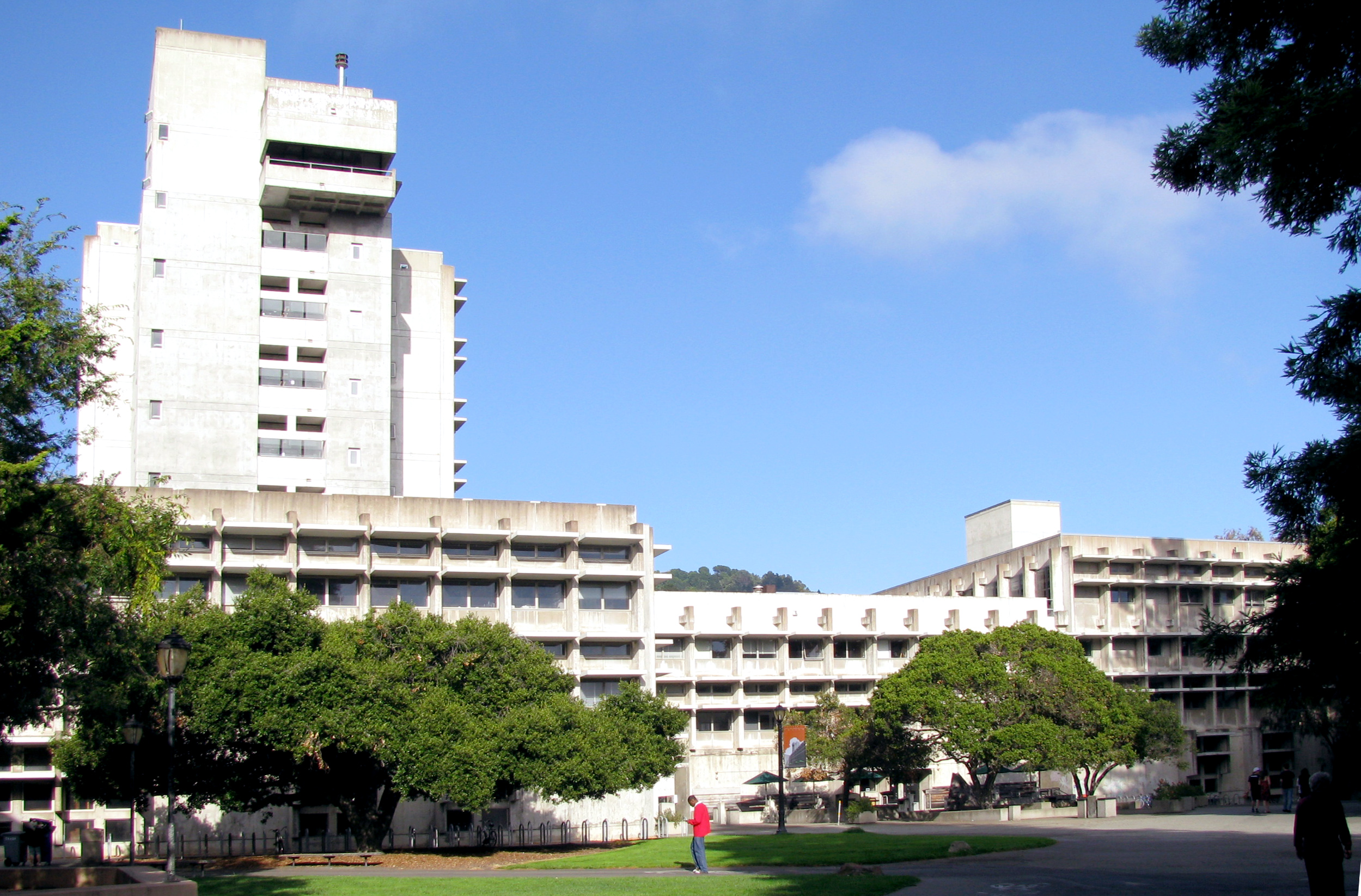 I took this picture myself at Wurster Hall of UC Berkeley